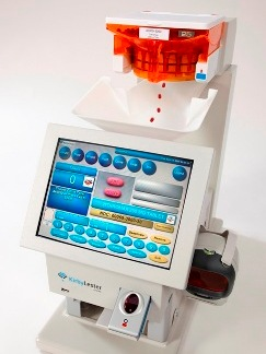 Kirby Lester KL30 pharmacy automation counting & verification system